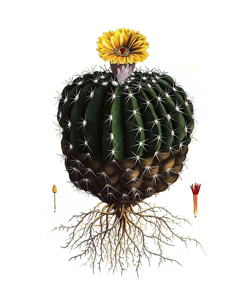 Parodia sellowii